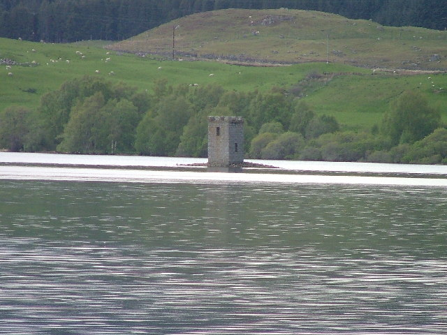 Eilean nam Faoilaig from the South shore.